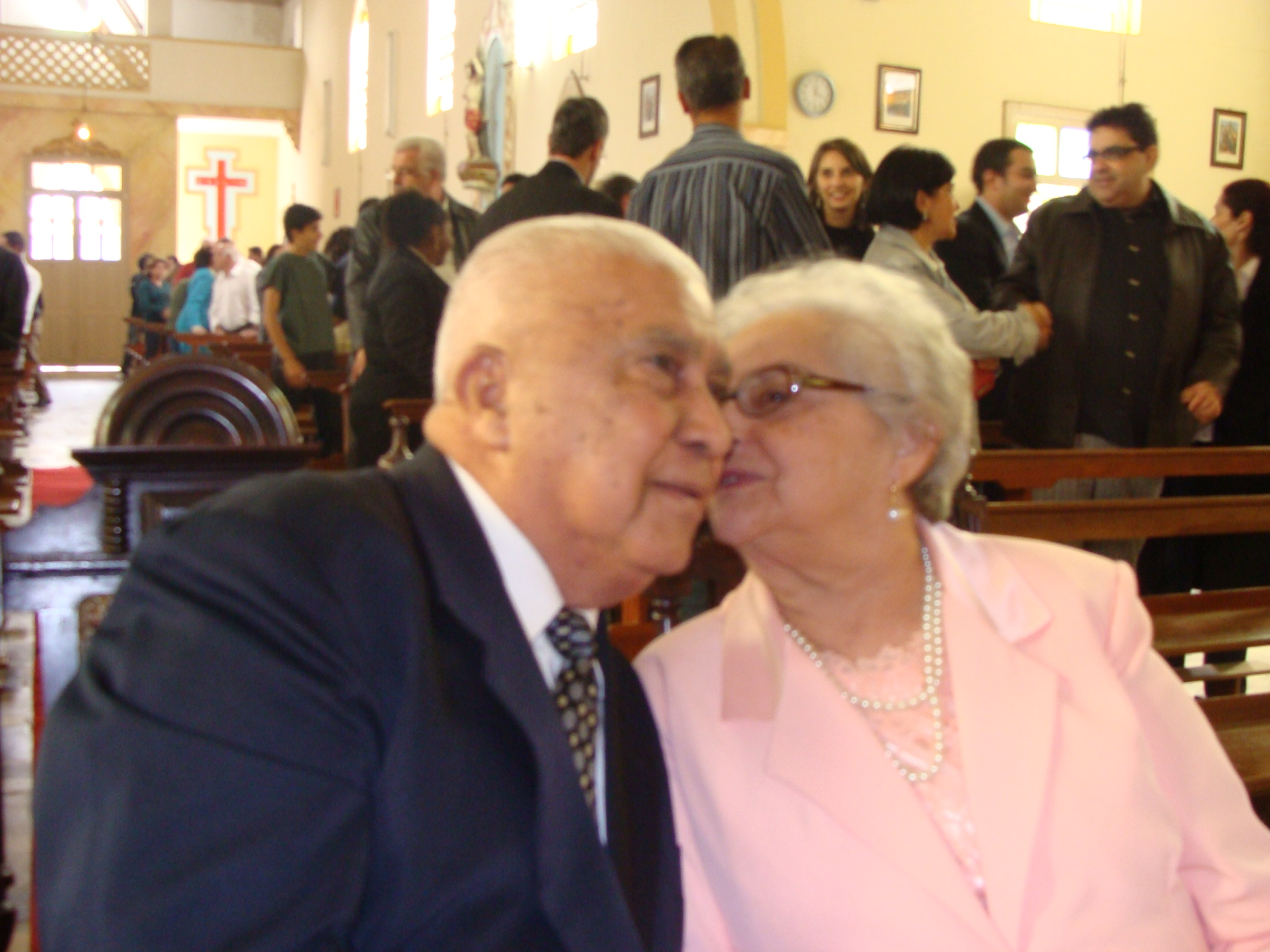 Jair Antonio da Silva and his wife, Conceição, at the St. Antony Church, Ewbank da Câmara, Brazil